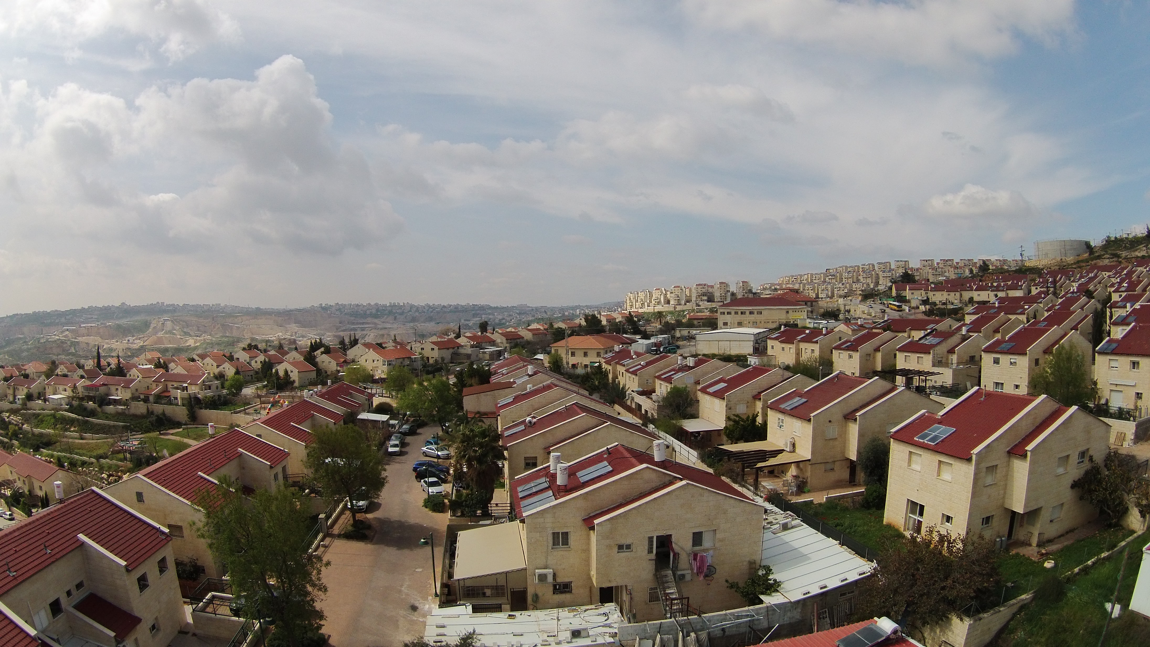 Kochav Yaakov from the east, Tel Tzion in distance